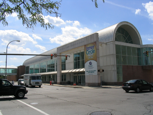 photo of the ONCenter in Syracuse, NY, taken by me on September 3, 2004